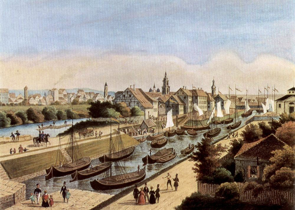 The Wilhelmskanal in Heilbronn ca. 1840. Lithography